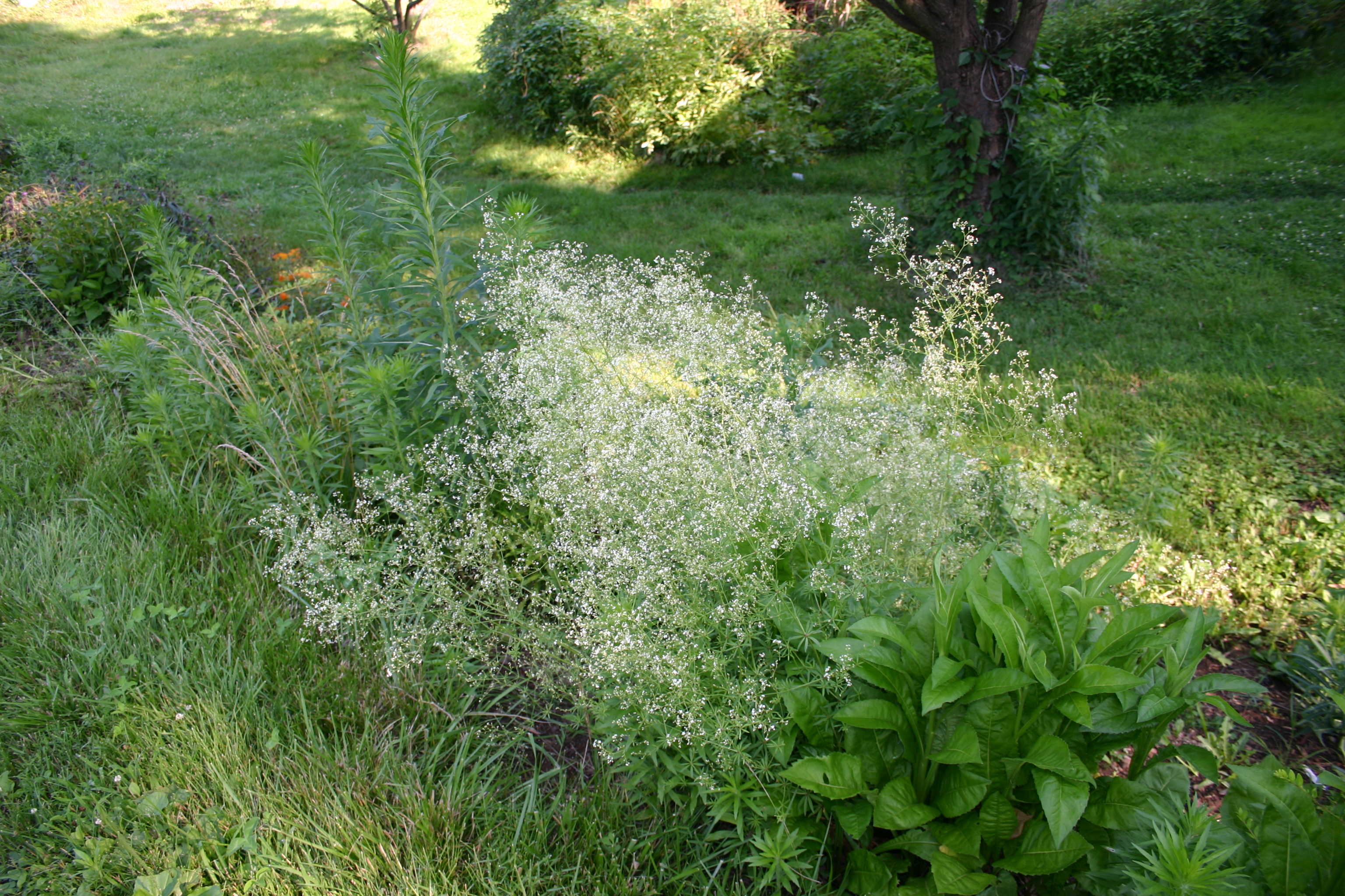 Galium aristatum in flower